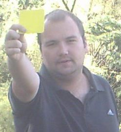 The yellow hockey card - A penalty for the player. who must leave the field at least 5 minutes.